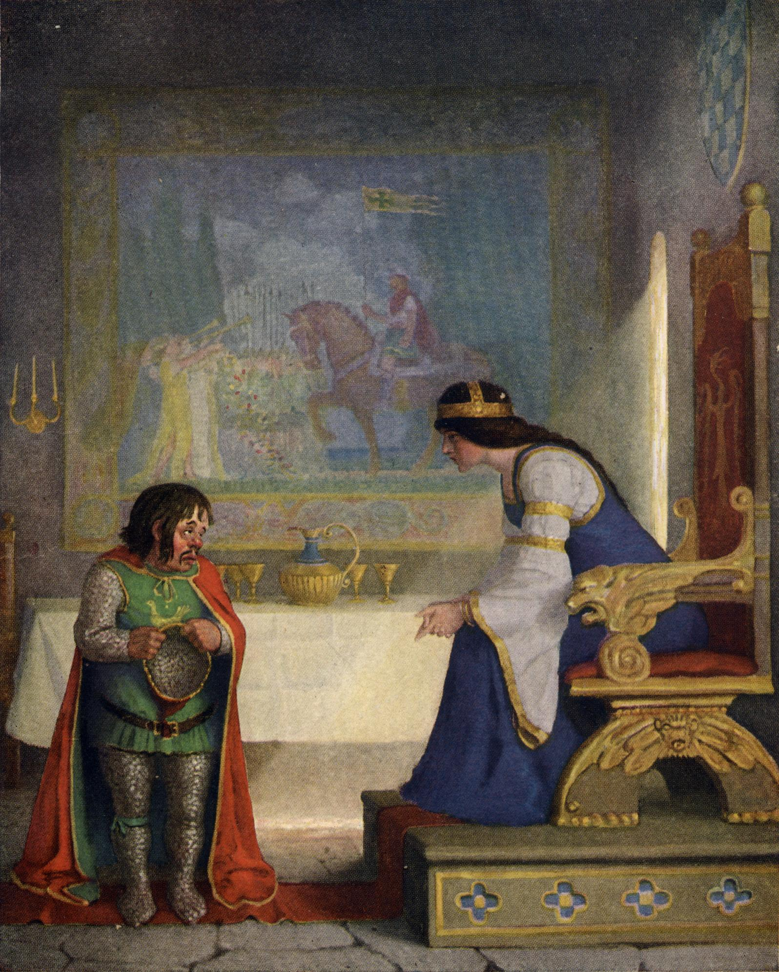 Illustration from page 102 of The Boy's King Arthur: "The lady Lyoness ... had the dwarf in examination."